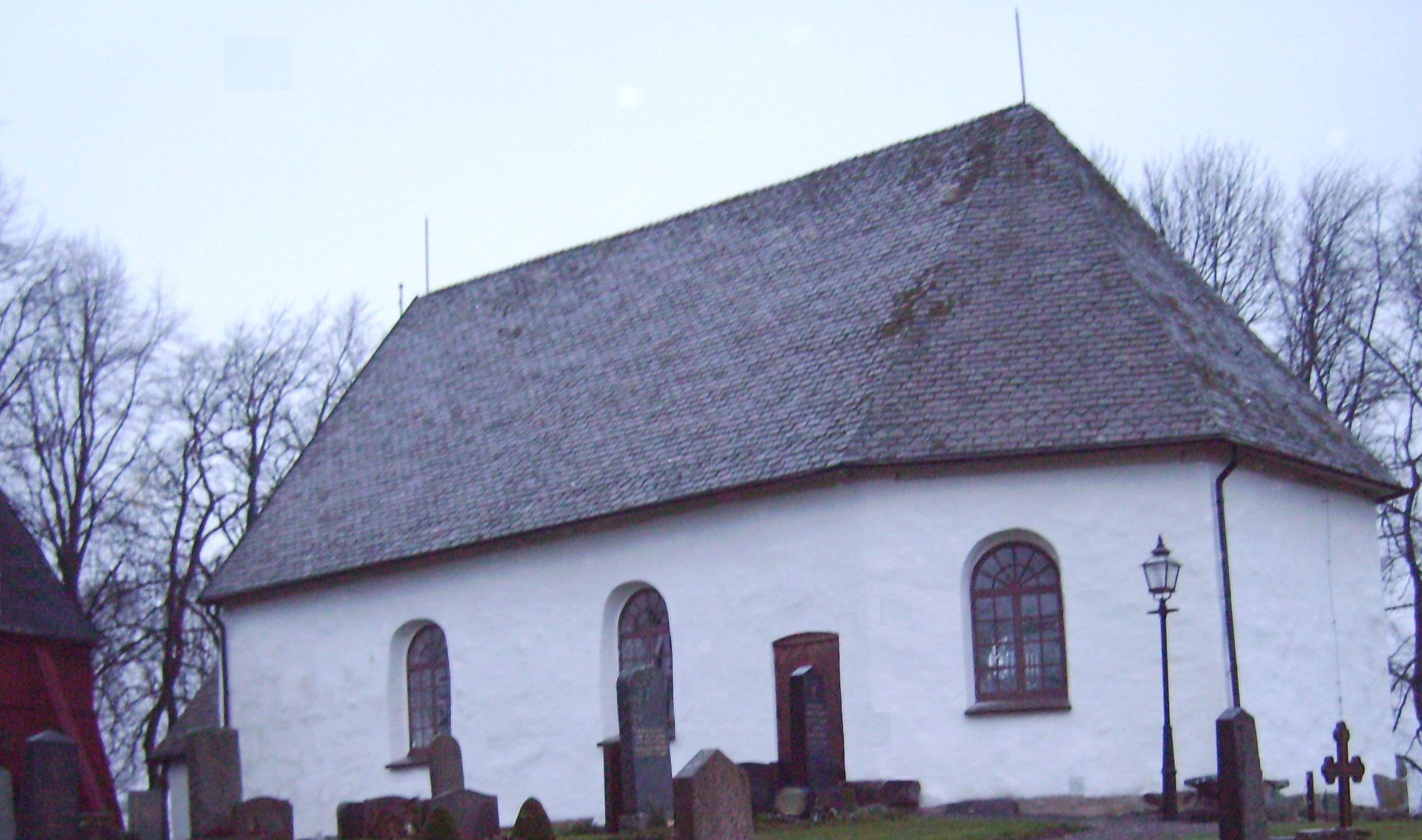 The 12th century stone church "Ås kyrka" in Västergötland, Sweden.